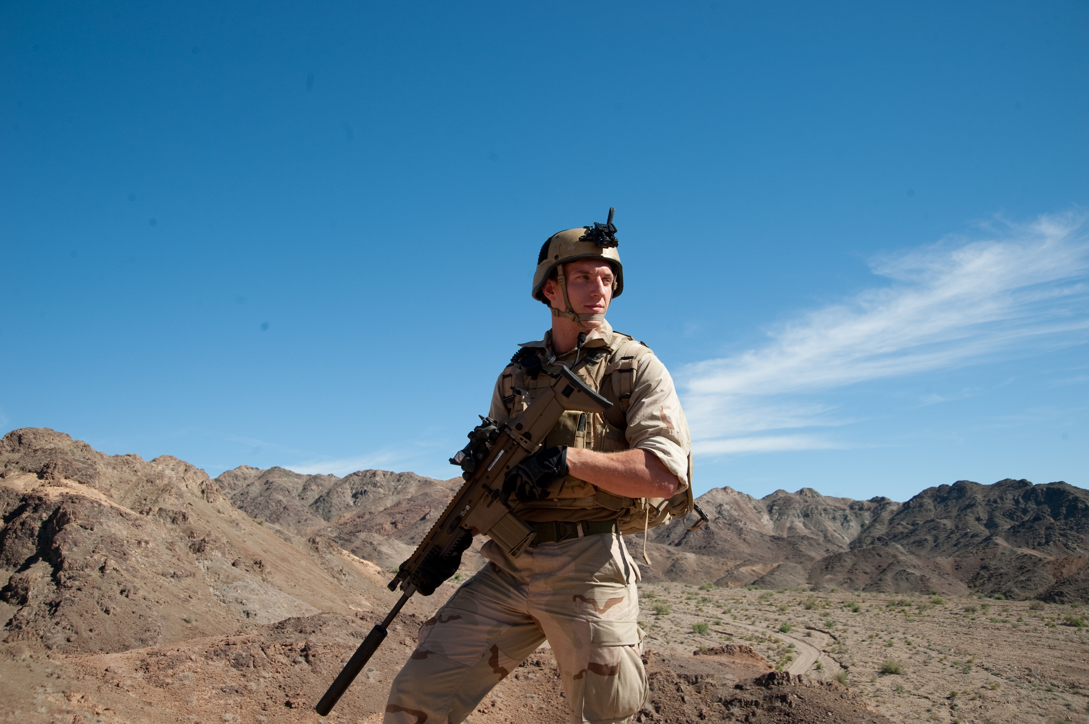 Navy Seal with FN SCAR in a desert area.